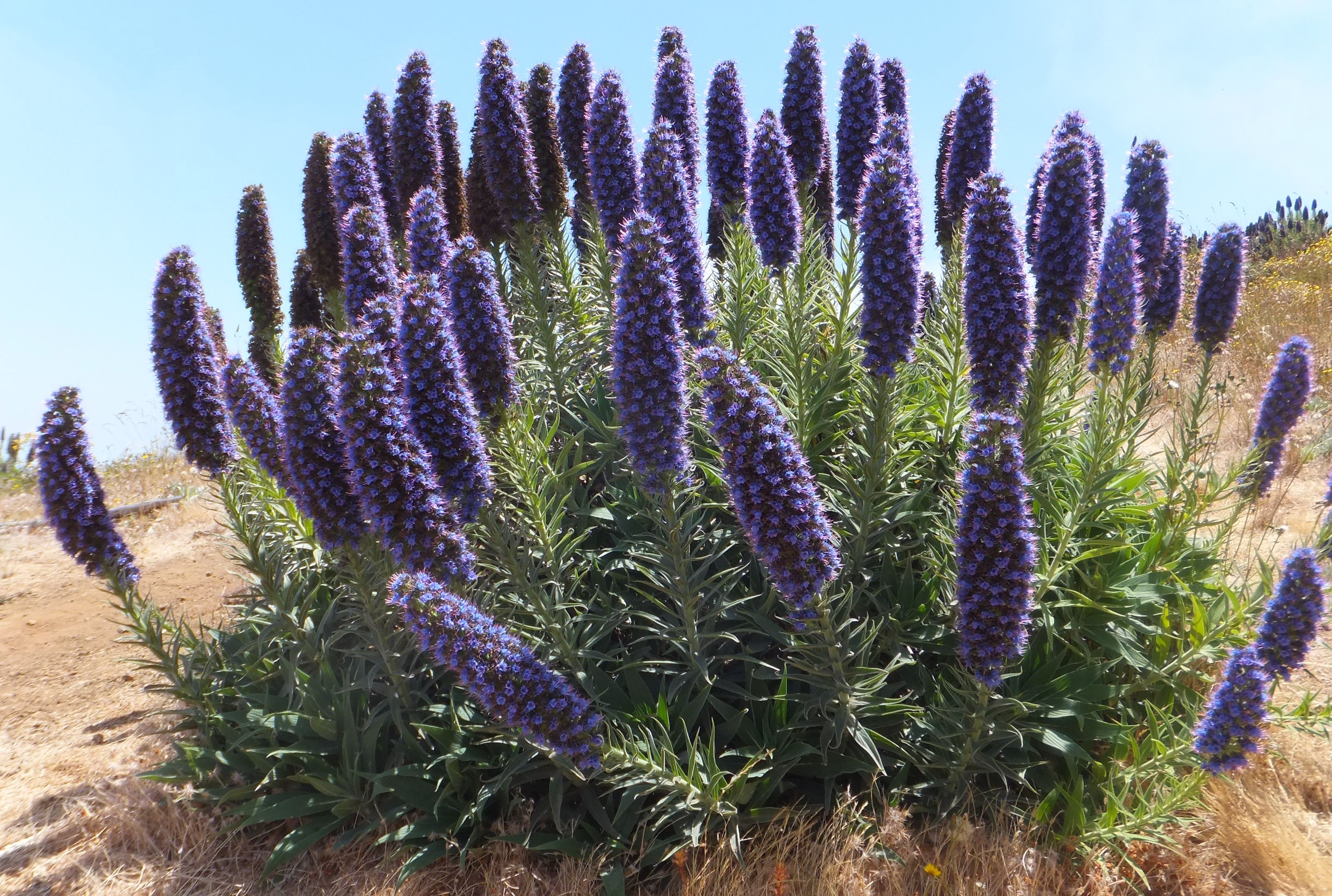 Echium candicans growing on the crest of Pico do Arieiro, Madeira